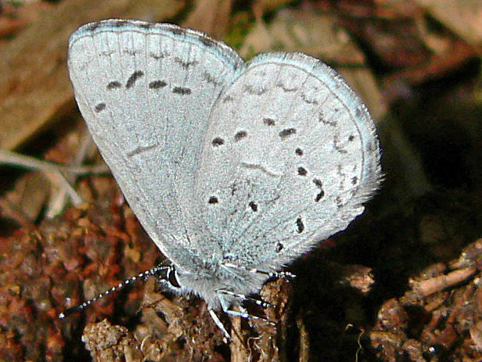 Spring Azure